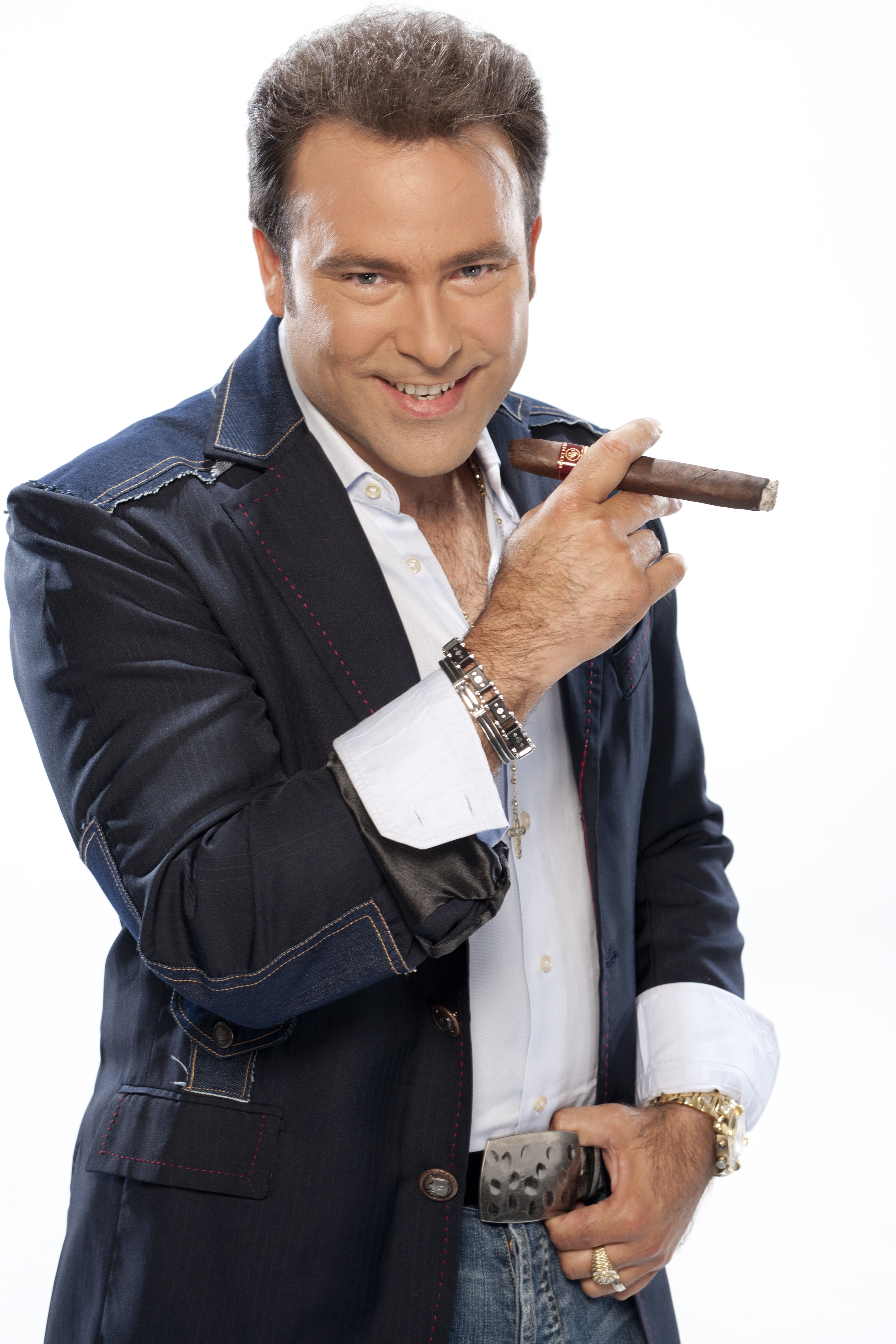 Journalist and television personality Tony Cortes in Miami, Florida, U.S.A.